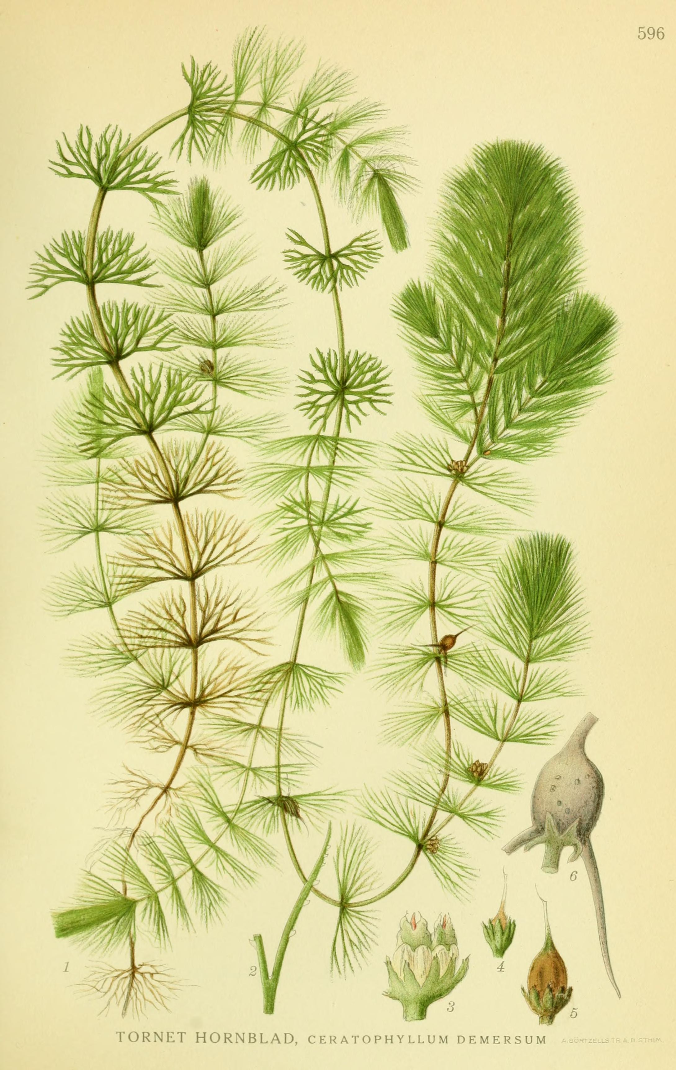 Title: Billeder af nordens flora Year: 1917 (1910s) Authors: Mentz, August, 1867-1944; Ostenfeld, C. H. (Carl Hansen), 1873-1931 Subjects: Plants; Plants; Plants Publisher: København, G. E. C. Gad's forlag Text Appearing Before Image: ' Text Appearing After Image: 596 TORNET HORNBLAD, ceratophyllum demersum